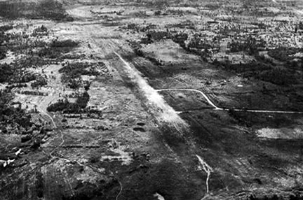 San Pablo Airstrip on Leyte, December 1944